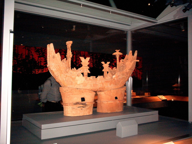 A clay figure of a ship, a funagata-haniwa, buried at the Takaraduka tomb mound (kofun) in Matsusaka-shi, Mie, Japan.